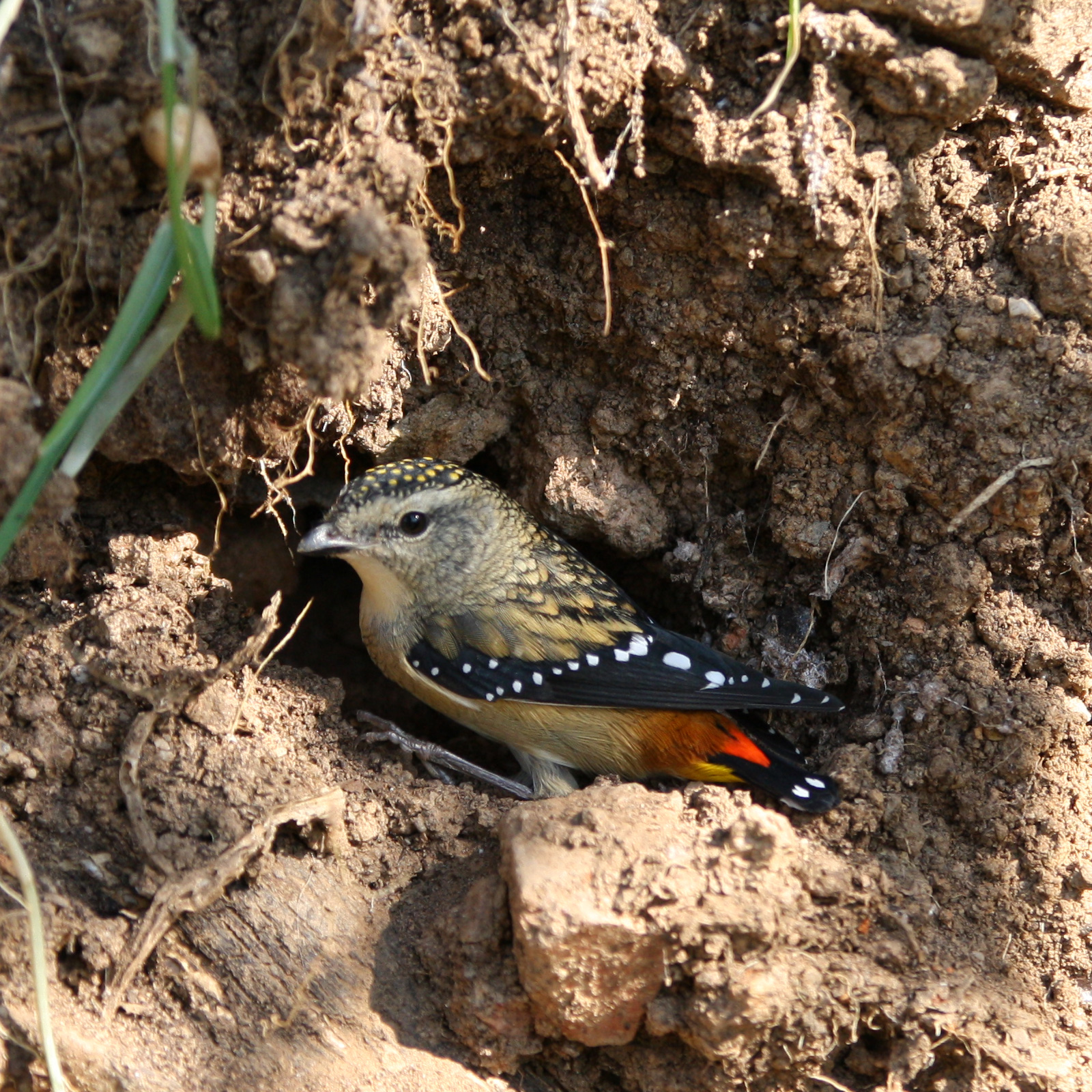 A pair of Spotted Pardalotes have dug a burrow in an embankment in our suburban backyard. This is the female with pale yellow spots on the crown.